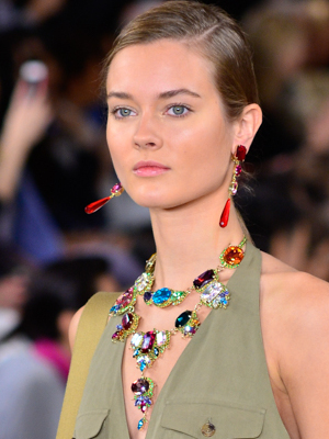 Monika "Jac" Jagaciak walking the Ralph Lauren Spring/Summer fashion show.